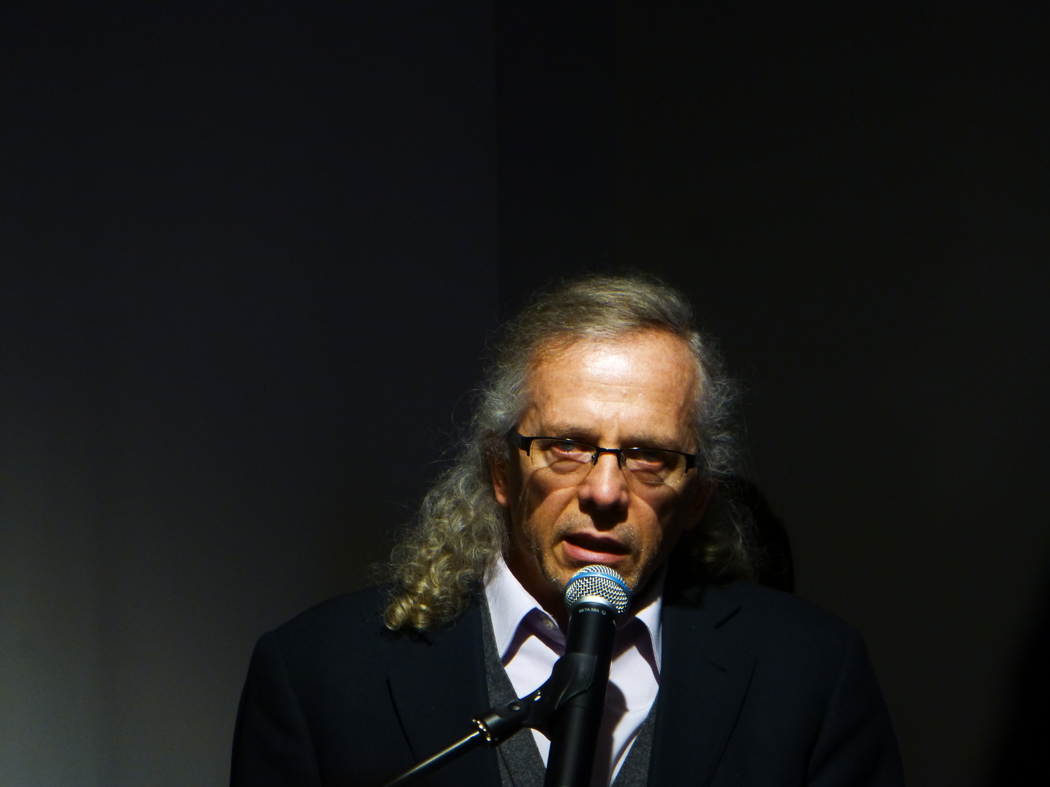 Andrés Eichmann, specialist in Bolivian colonial literature